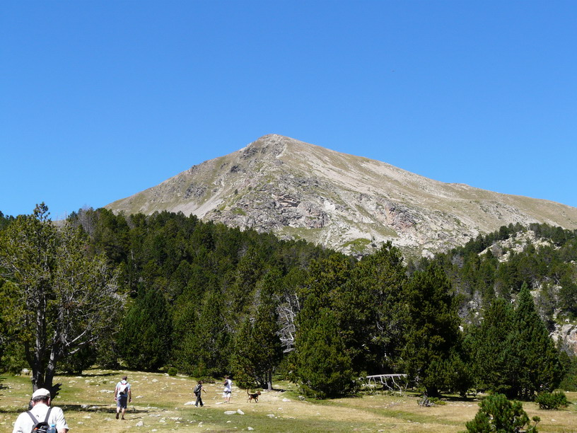 Pic de Perafita (mountain)